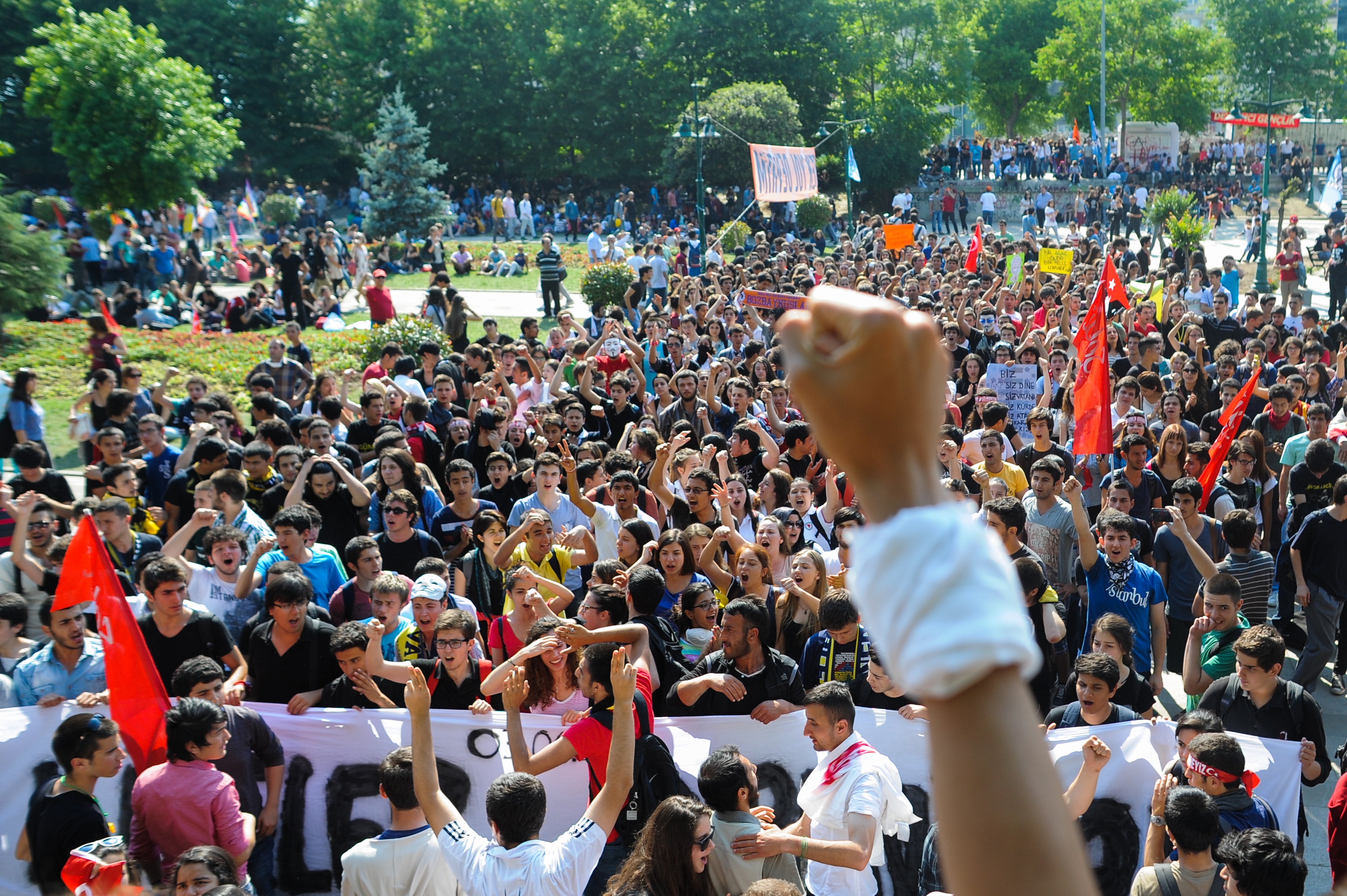 Demonstration in the heart of Taksim square. Evnts of June 3, 2013.